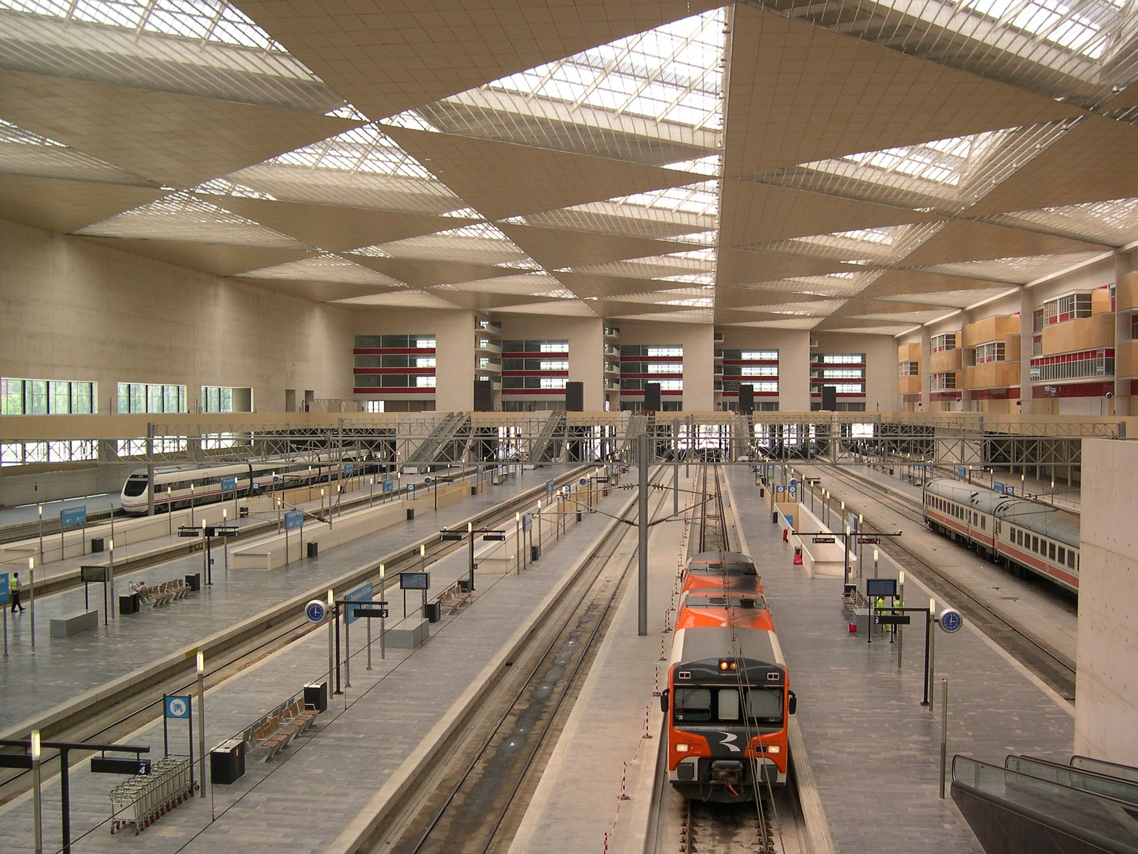 Inside the new train station in Zaragoza